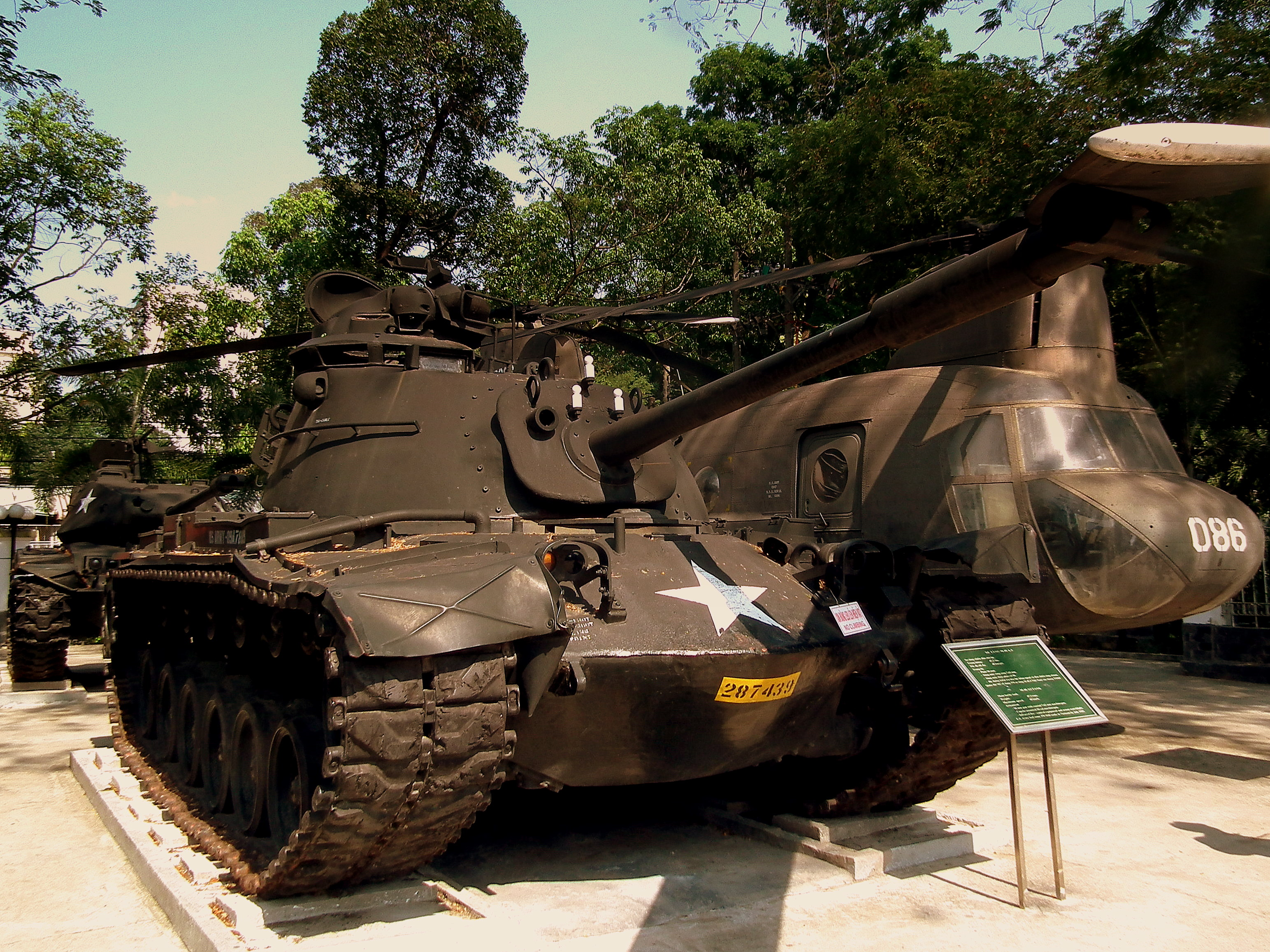 WAR REMNANTS MUSEUM SAIGON/HO CHI MHINN CITY VIETNAM JAN 2012